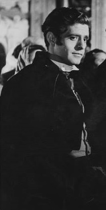 Hector Armendariz- actor